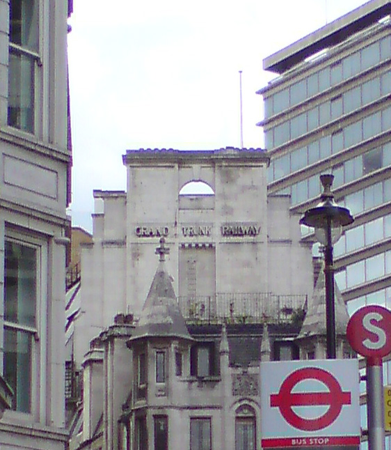 The Grand Trunk Railway headquarters building at 4 Warwick House Street (and Canadian National Railway Building facing 17-19 Cockspur) in London, between Cockspur Street and Warwick House Street, just off Trafalgar Square. Designed by Sir Aston Webb 1907